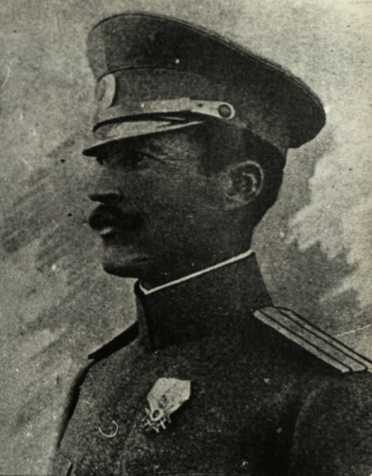 Bulgarian colonel and warfare pedagogue Boris Drangov (1872-1917).